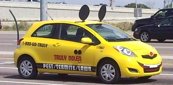 2009-2011 Toyota Yaris Truly Nolen photographed in Orland, Florida, USA.